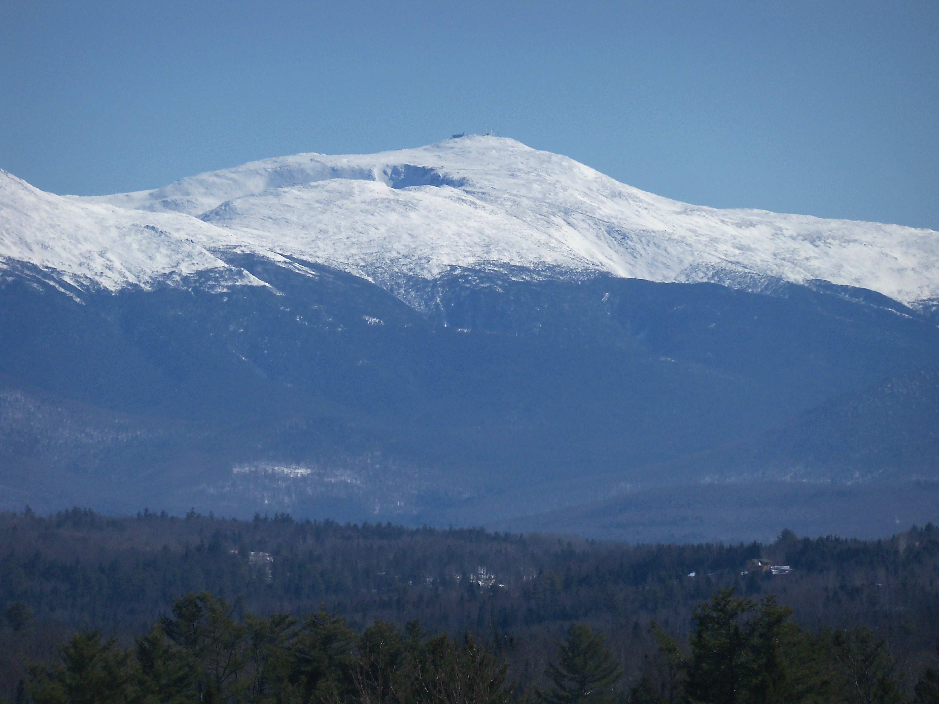 Mount Washington from a few miles east of Lancaster, New Hampshire, USA.